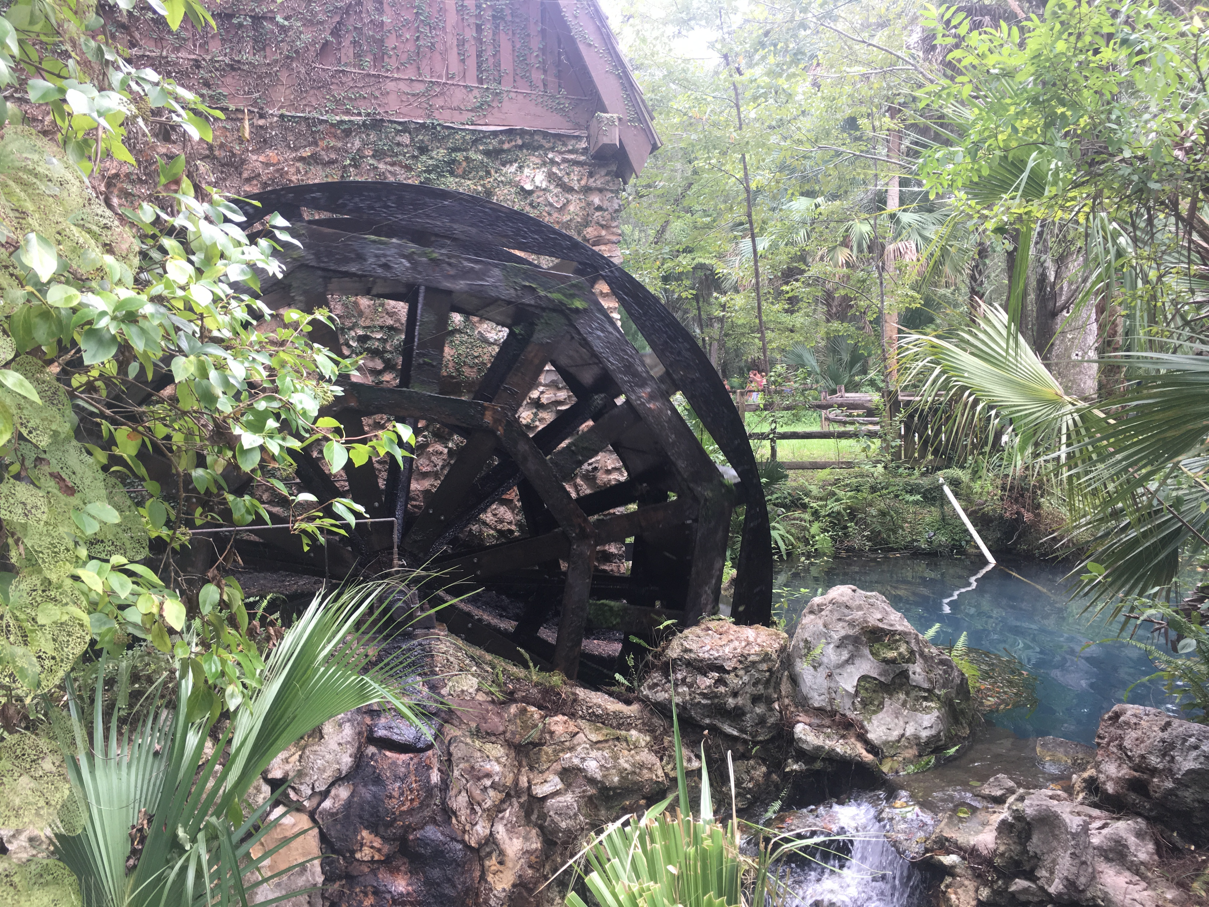 Millhouse and waterwheel at Juniper Springs Florida built by the Civilian Conservation Corps.